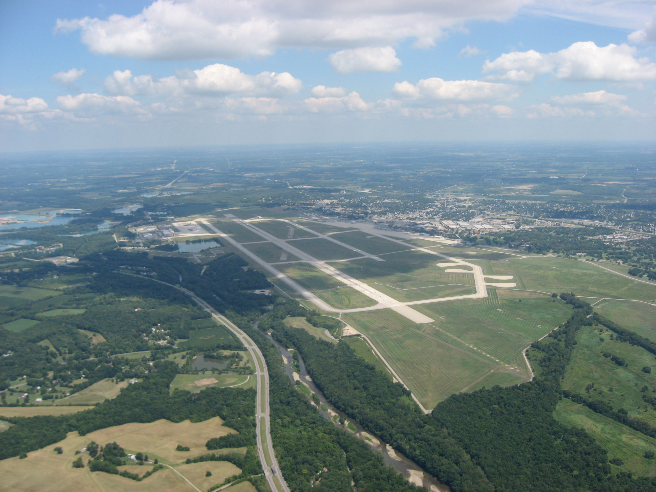 Aerial view of Wright-Patterson Air Force Base in Bath Township, Greene County, Ohio, United States, northeast of the city of Dayton. Picture taken from a Diamond Eclipse light airplane at an altitude of 3,520 feet MSL and a bearing of approximately 70º.